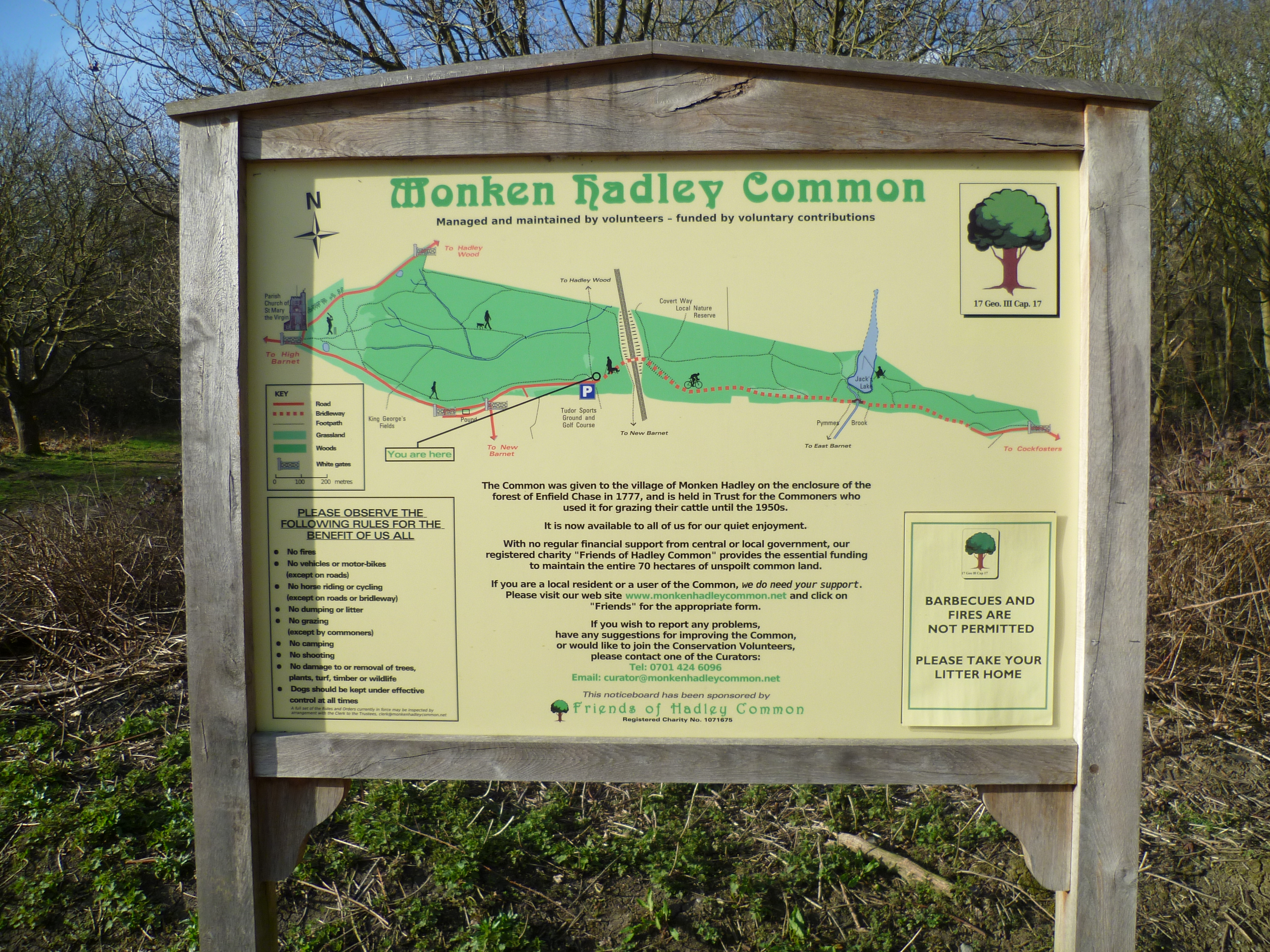 Monken Hadley Common sign.